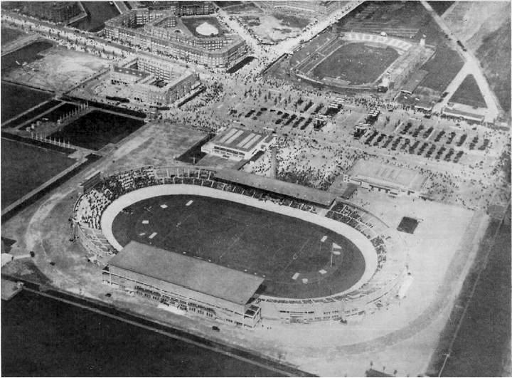 Olympic Stadium and grounds, Amsterdam, 1928. In the background the old stadium.